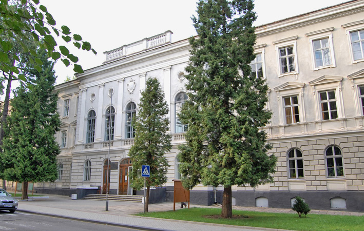 School in Drohobych